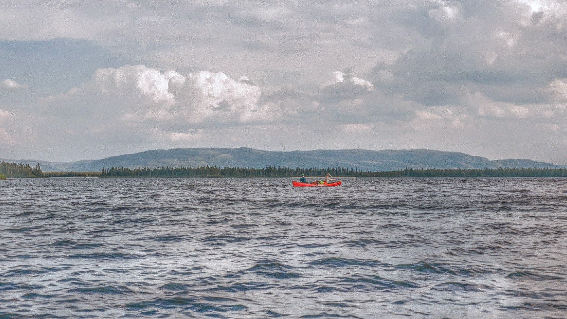 Otish Mountains and Eastmain River